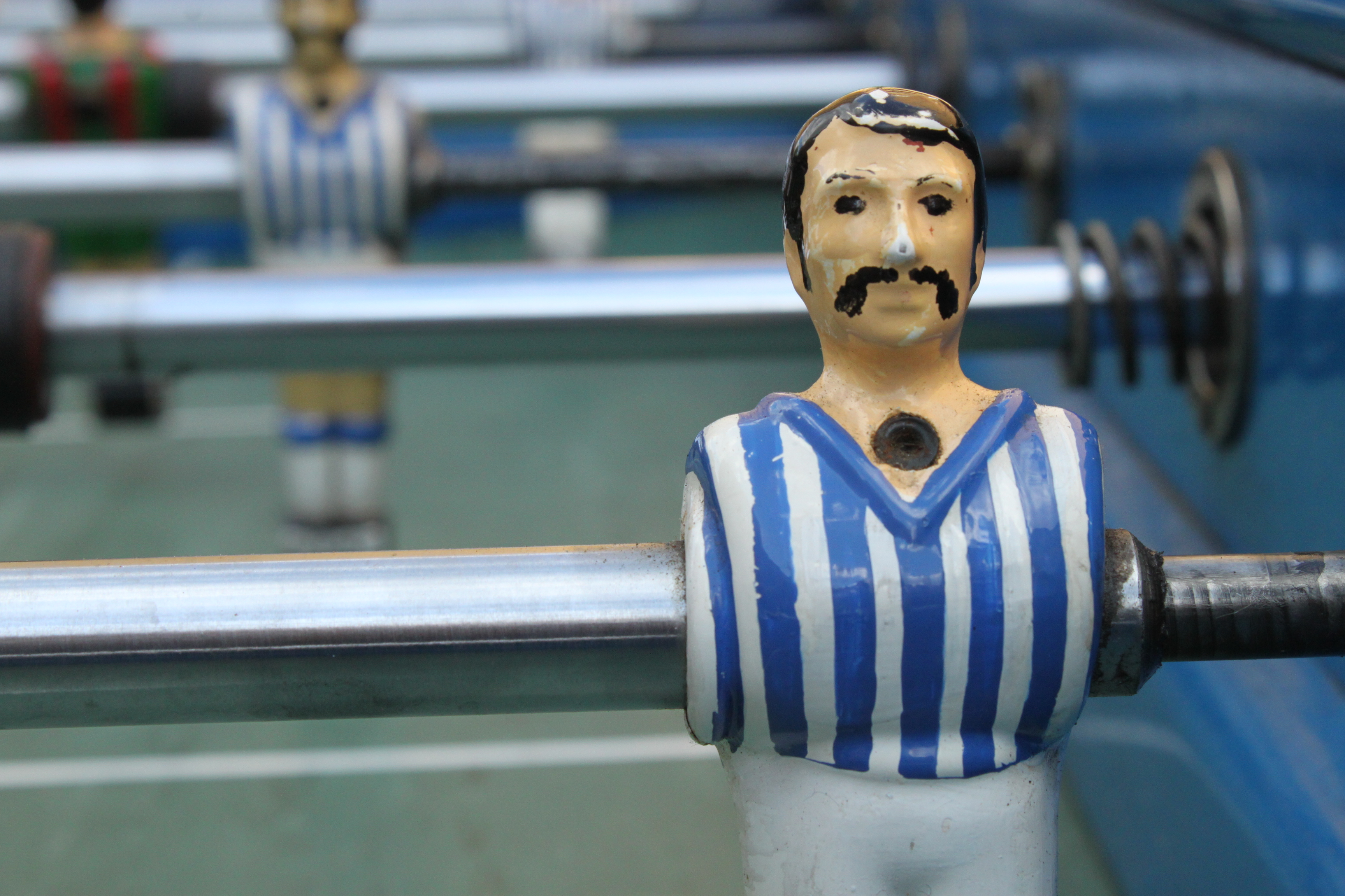 Picture of a Fussball Player